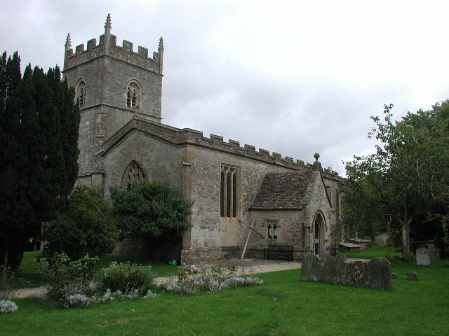 Church of St Leonard, Minety. The church of St Leonard